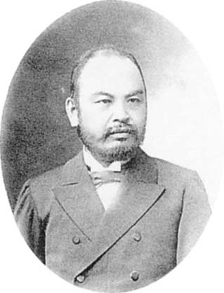 K. Katayama, Professor of Forensic Medicine & Psychiatry.